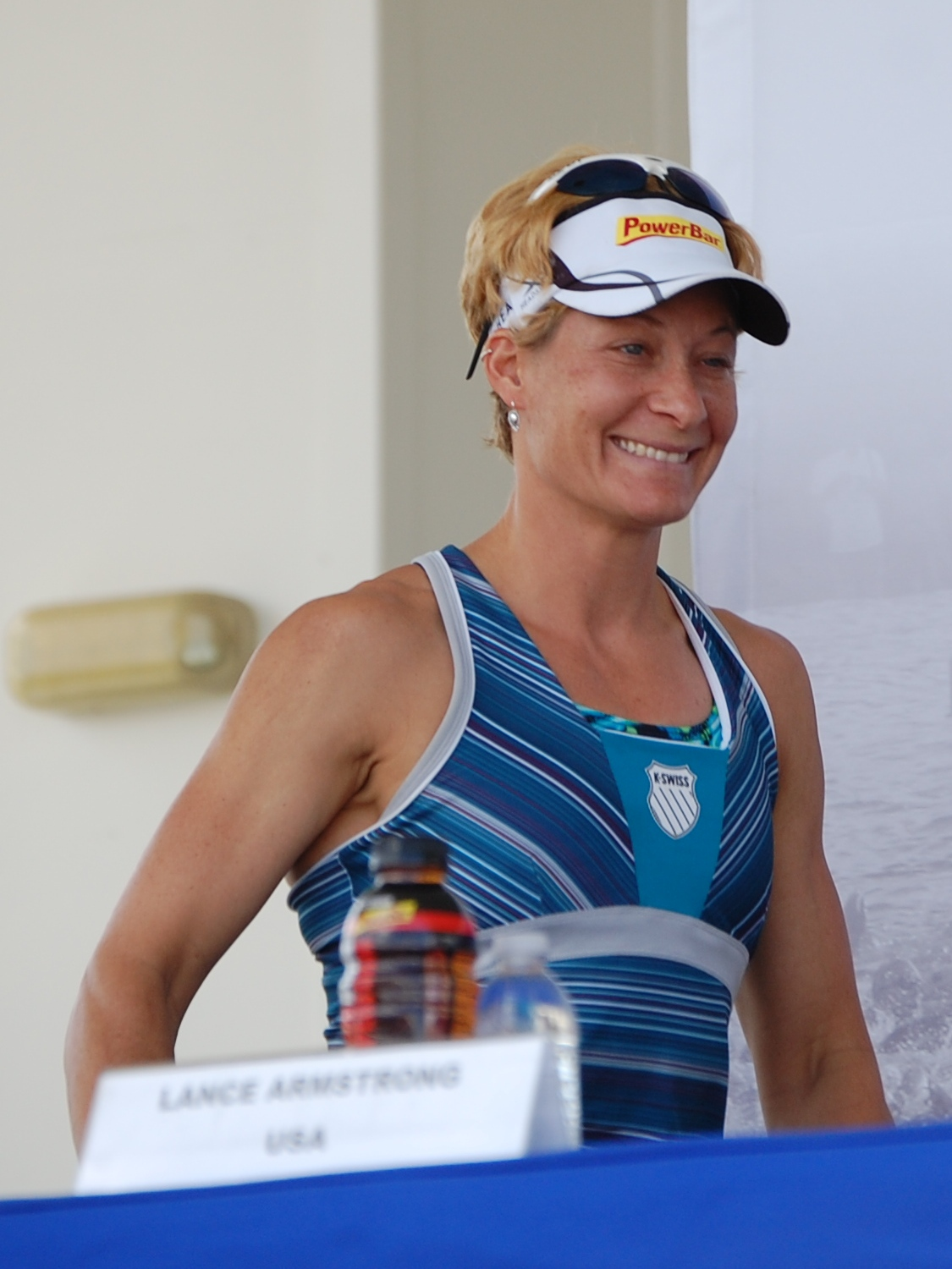 Ironman 70.3 Florida, a 2,800 participant event, taking place at Lake Eva Park in Haines City, Polk County, Central Florida.